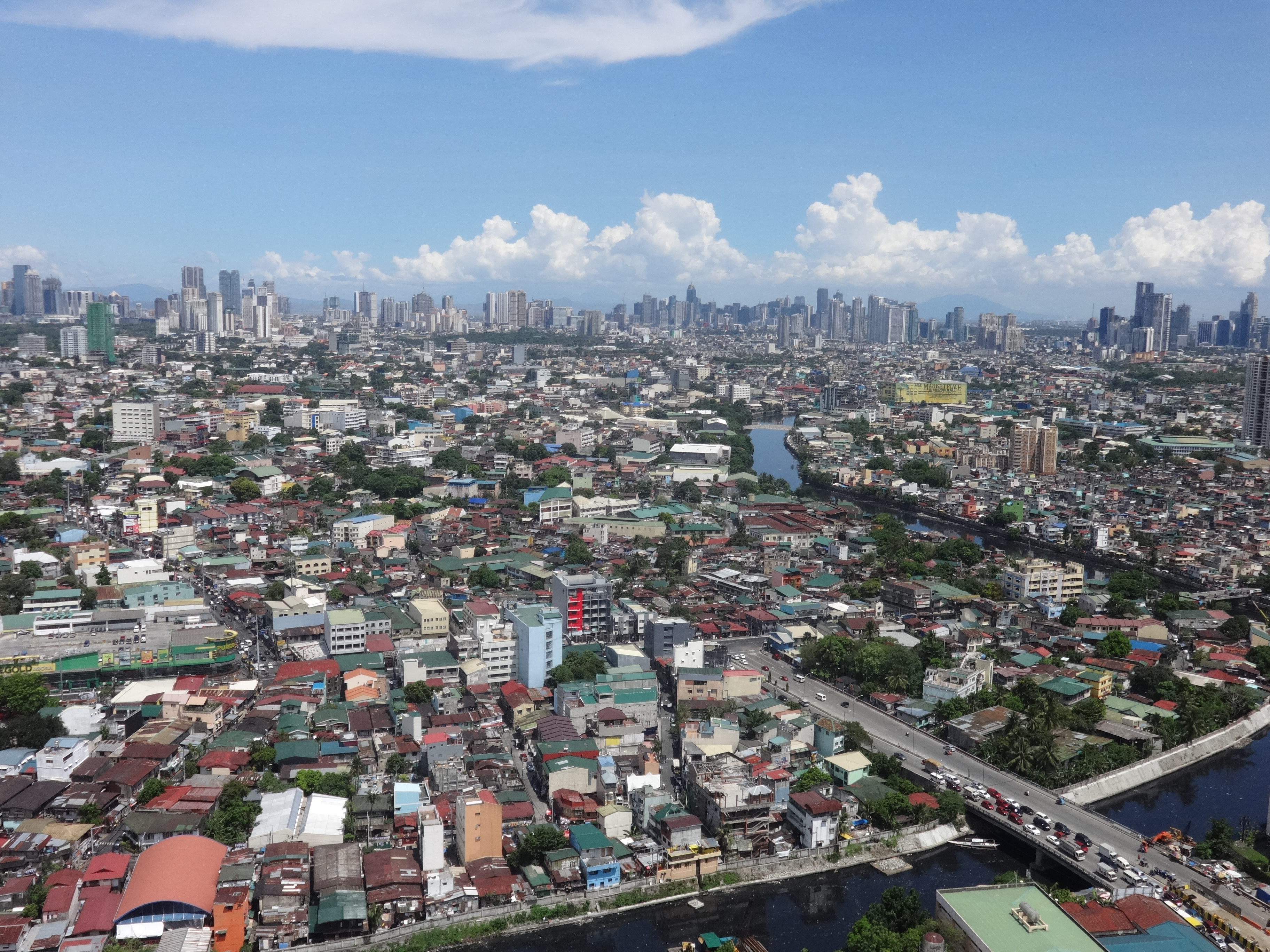 Central Metro Manila area with Ortigas Center, Bonifacio Global City and Makati skyline